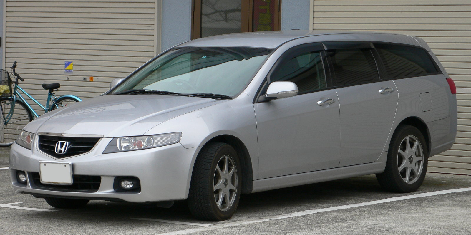 4th generation Honda_Accord_wagon (2002/11 - 2005/11)